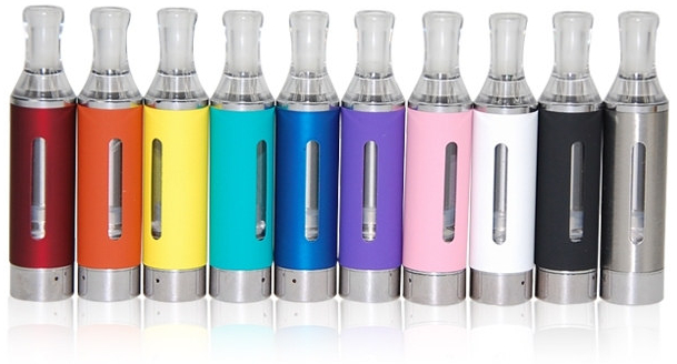 Attribution should be given to tcavapor. com